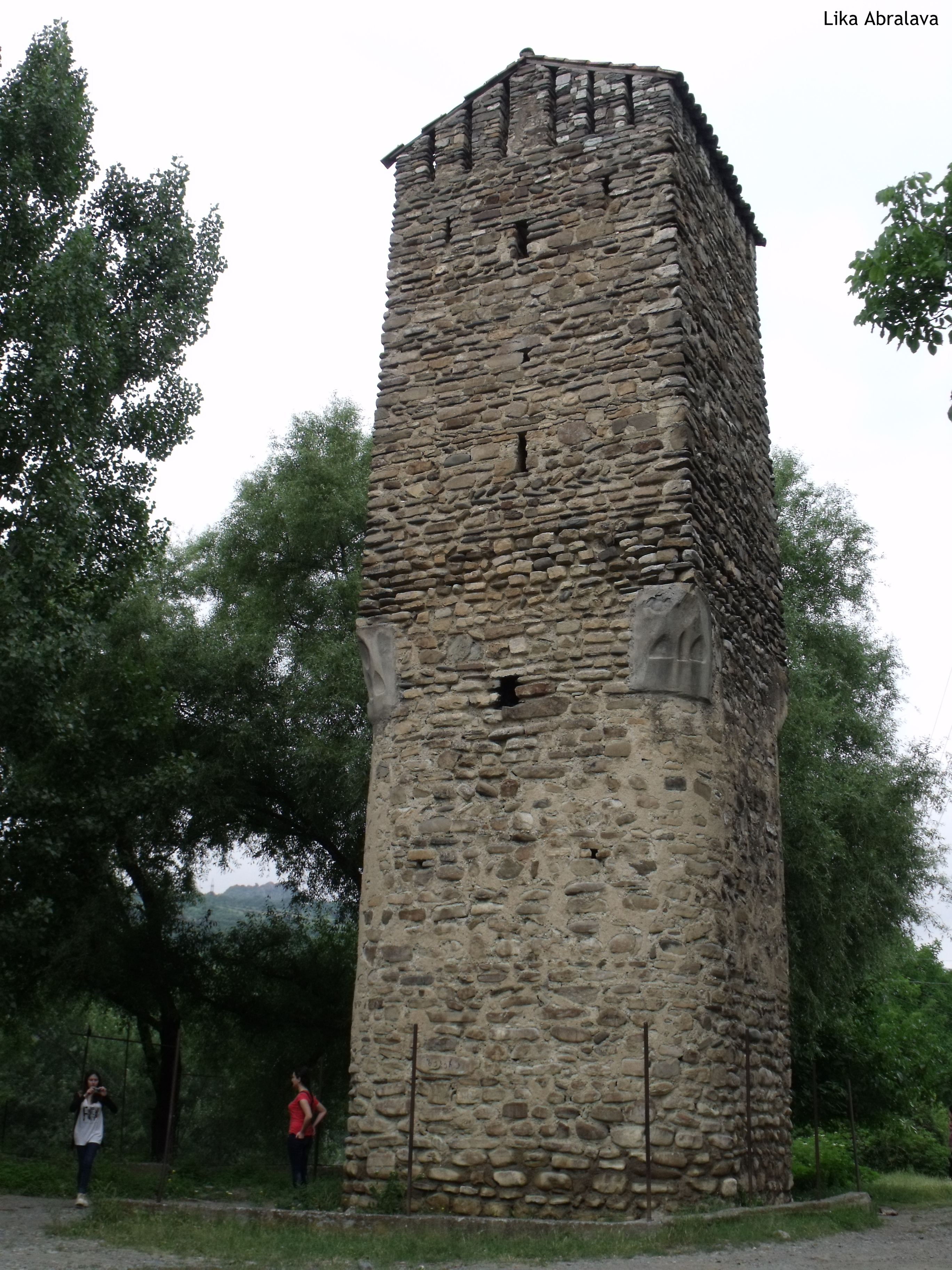 tower of Chinti